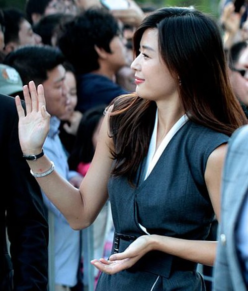 Jun Ji-hyun at Busan International Film Festival, 2012 October 7.